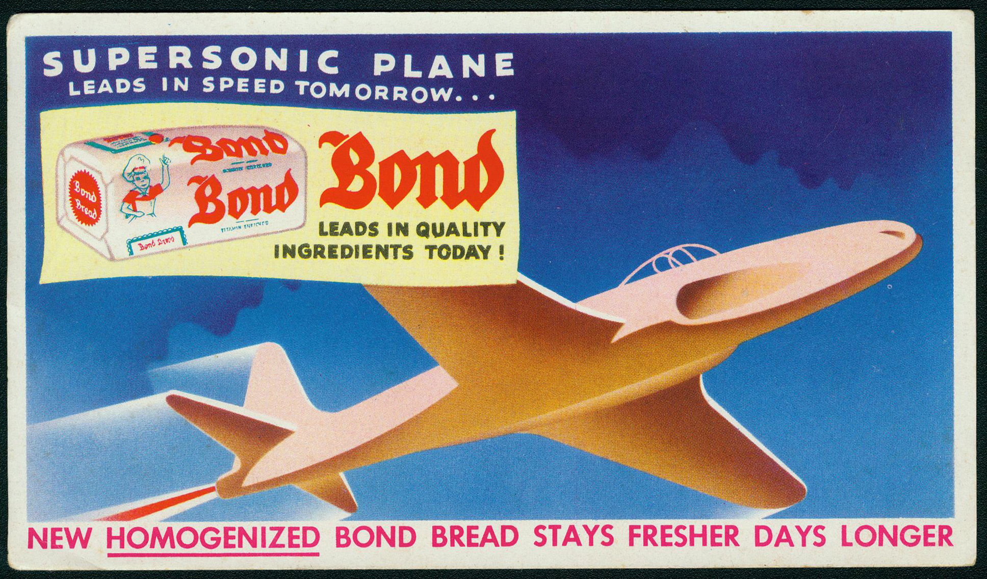 Bond Bread marketing material - Supersonic Plane